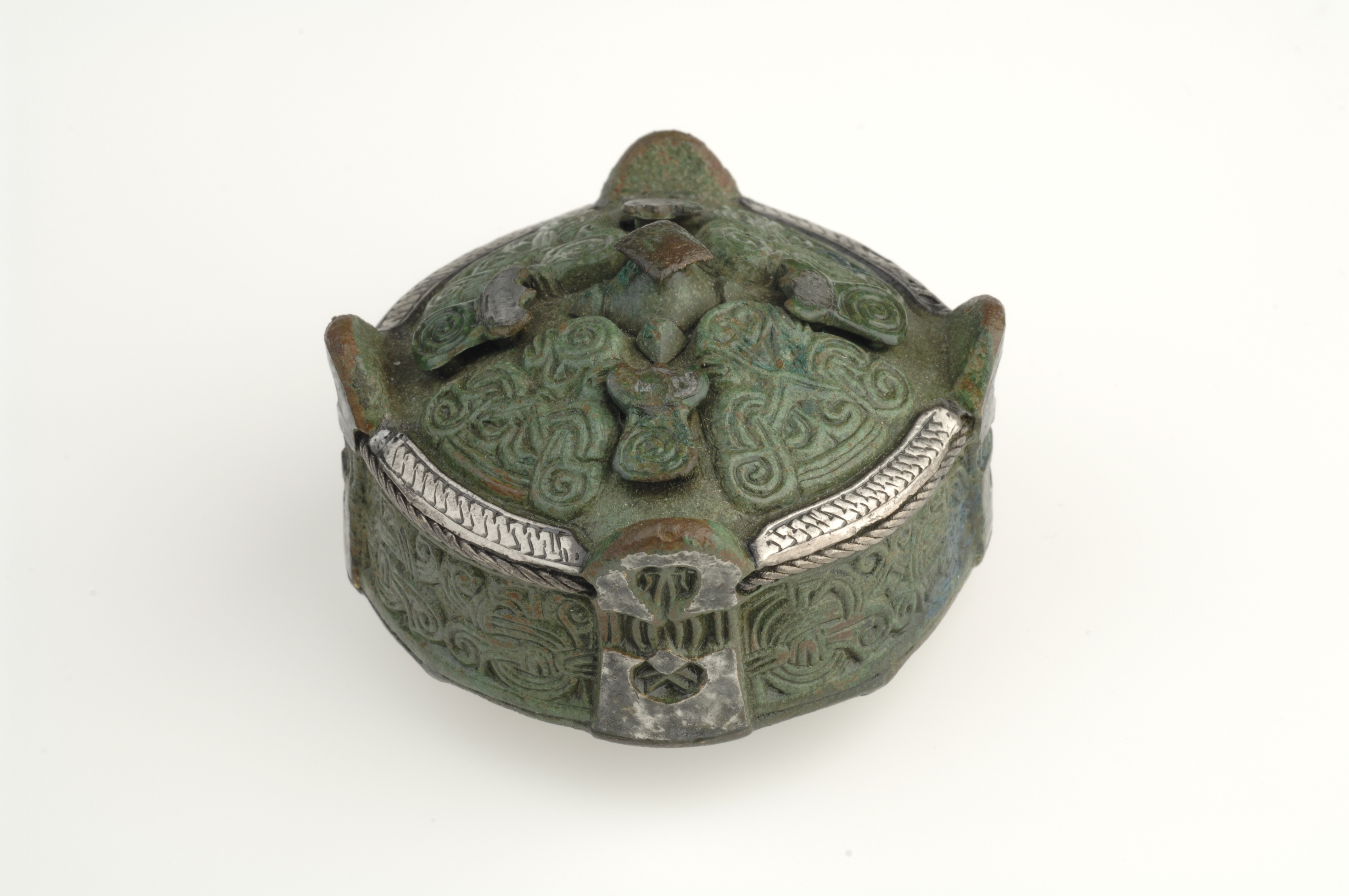 Box-shaped brooch. Bronze, silver. Box-shaped brooches were used to hold together a cloak, scarf or coat and are found exclusively in Gotland. Grave find, Hemse, Annexhemman, Gotland, Sweden. SHM 4683 See also